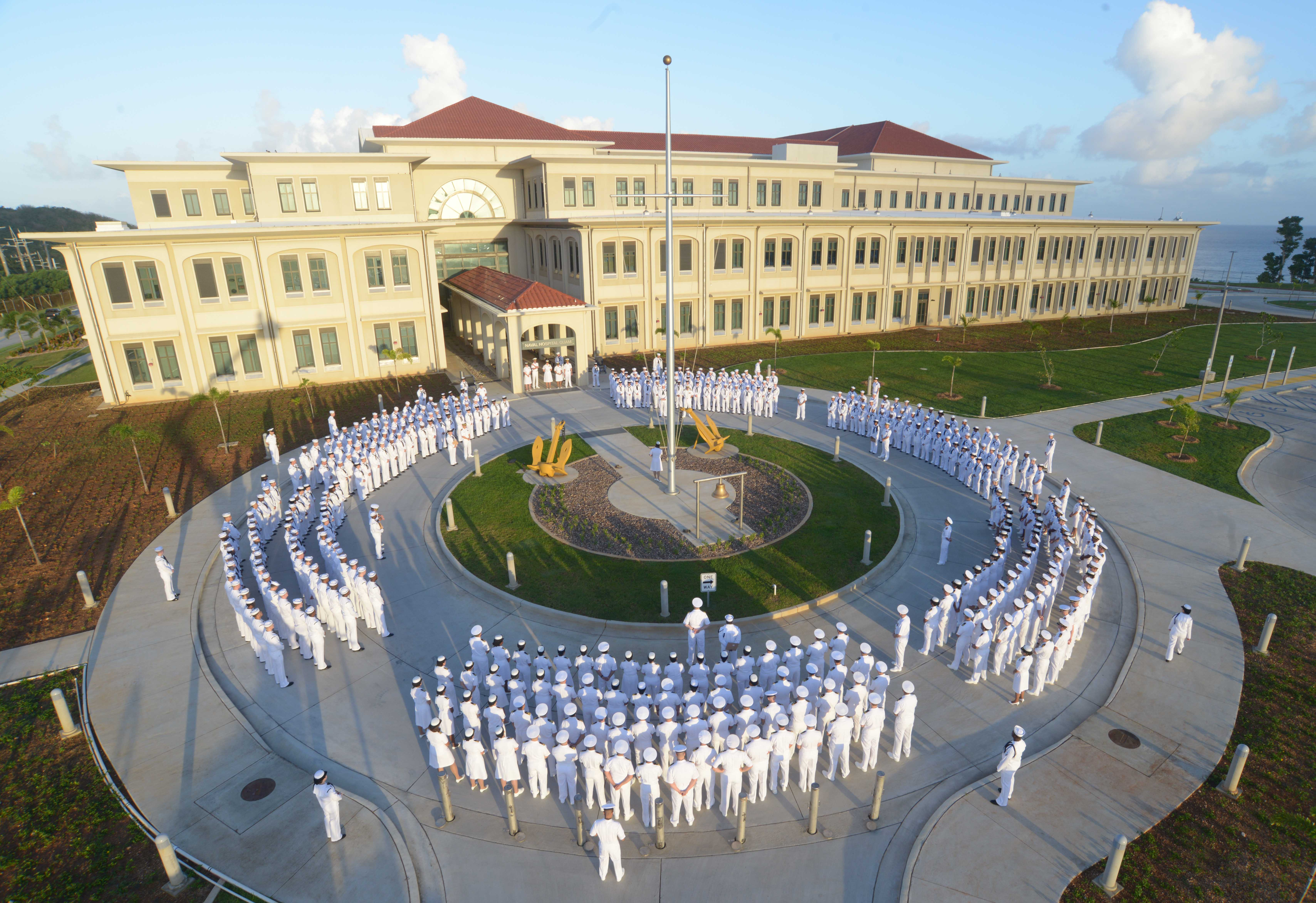 151113-N-PZ223-054 AGANA HEIGHTS, Guam (Nov. 13, 2015) Sailors from U.S. Naval Hospital Guam prepare for their annual dress whites inspection. Sailors on island will not switch from their dress white uniform to their dress blue uniform in the fall with the rest of the fleet due to the island's climate.